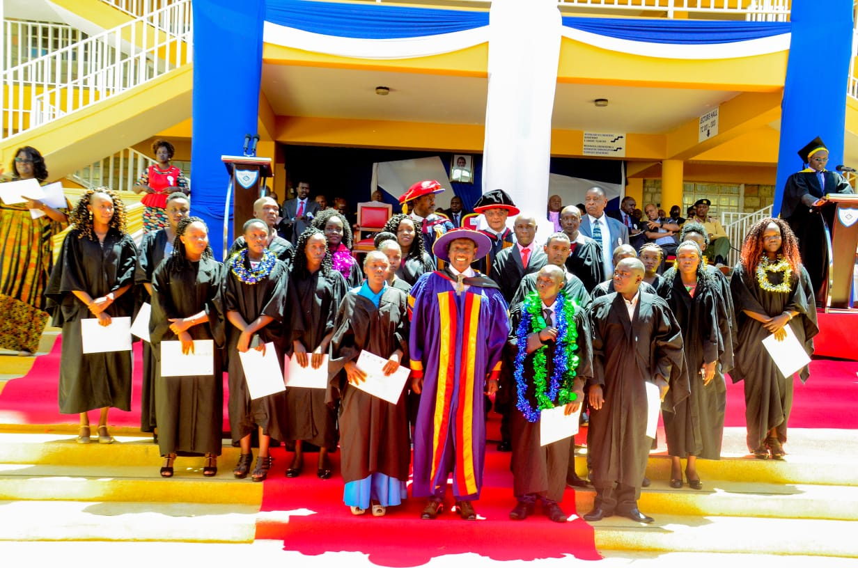 Dr Ruto with RVTTI graduands